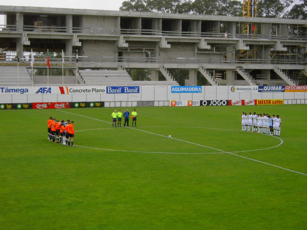 Image of Estádio Eng. Rui Alves (Funchal, Portugal). View of the back straight during the Portuguese Liga match versus Associação Académica de Coimbra - O.A.F.